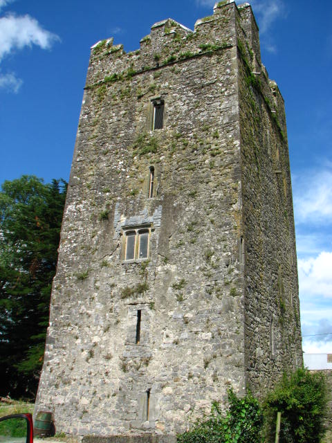 Clara Castle. A fine stone Castle, entrance through a farm yard.